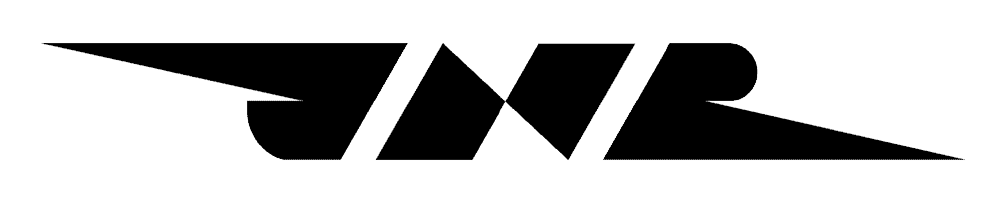 The logo was in use since 1958.